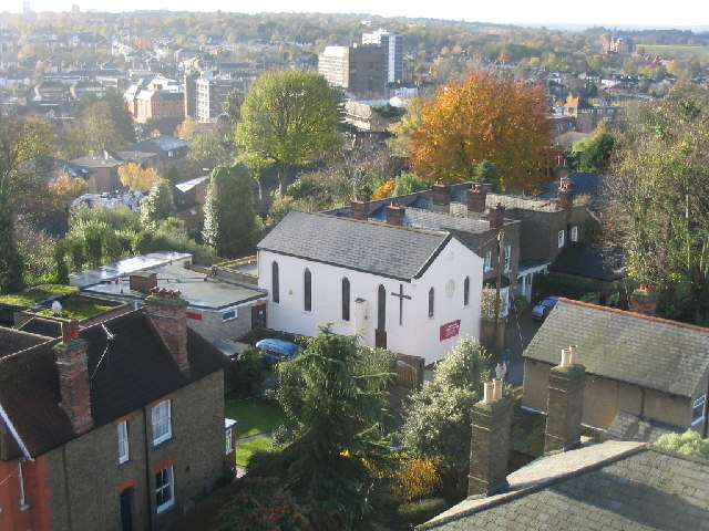 Crown Street Christian Fellowship, Brentwood.